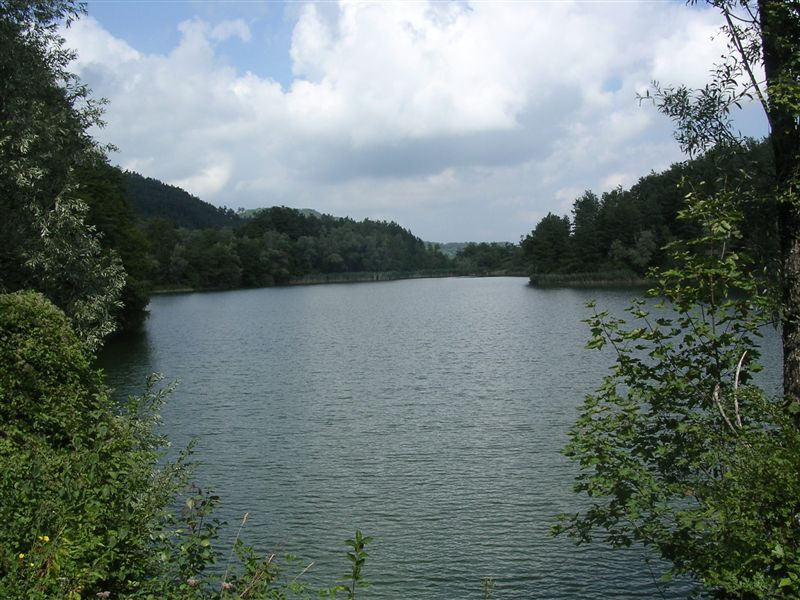 River Savena (Bologna, Italy): the little lake of Castel dell'Alpi